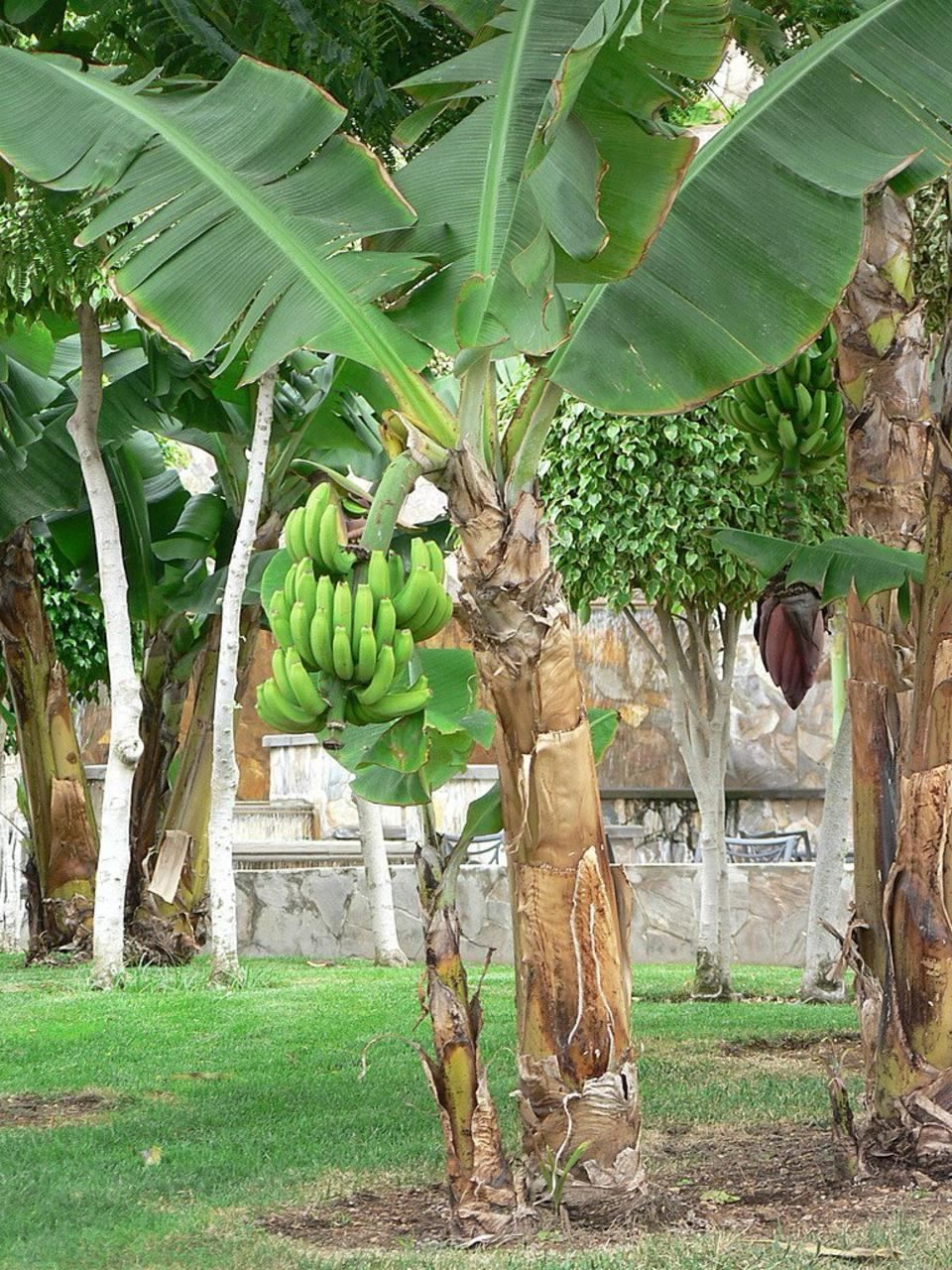 Image title: Banana tree with green bananas Image from Public domain images website